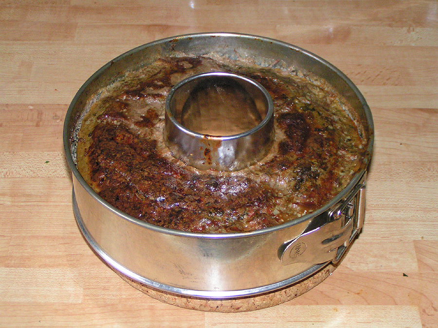 Danish homemade paté (leverpostej) from the photographer's kitchen